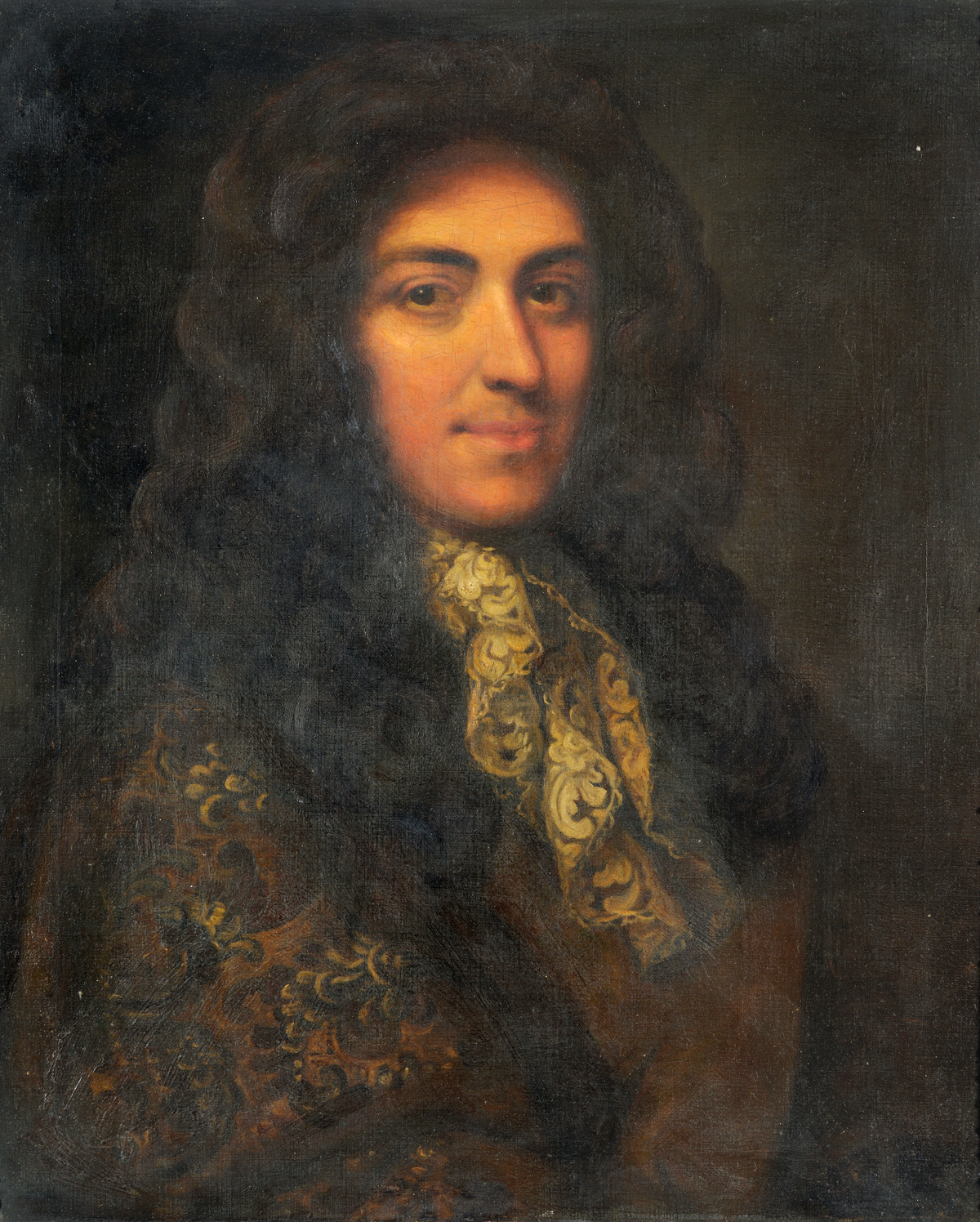 Portrait of Thomas Fanshawe (1628–1705), English politician.